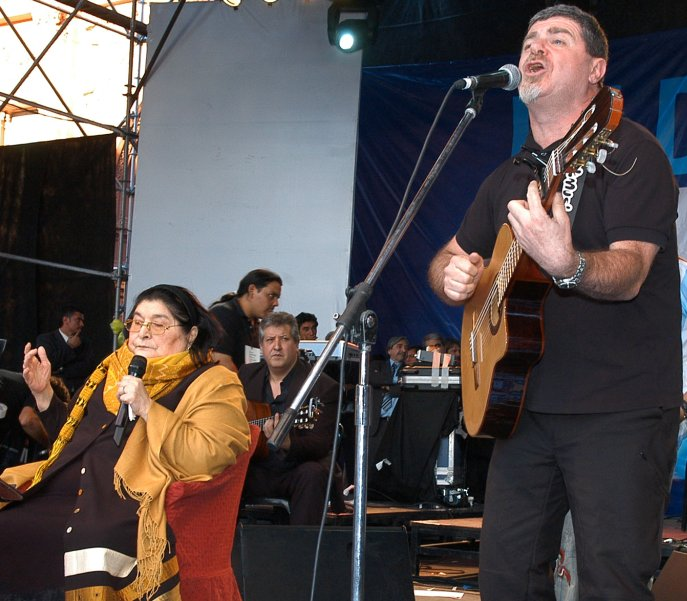 Mercedes Sosa & Gustavo Santaolall in Plaza de Mayo (Buenos Aires Argentina). Concert when Cristina Fernandez de Kirchenr begun her administration - 10dic07